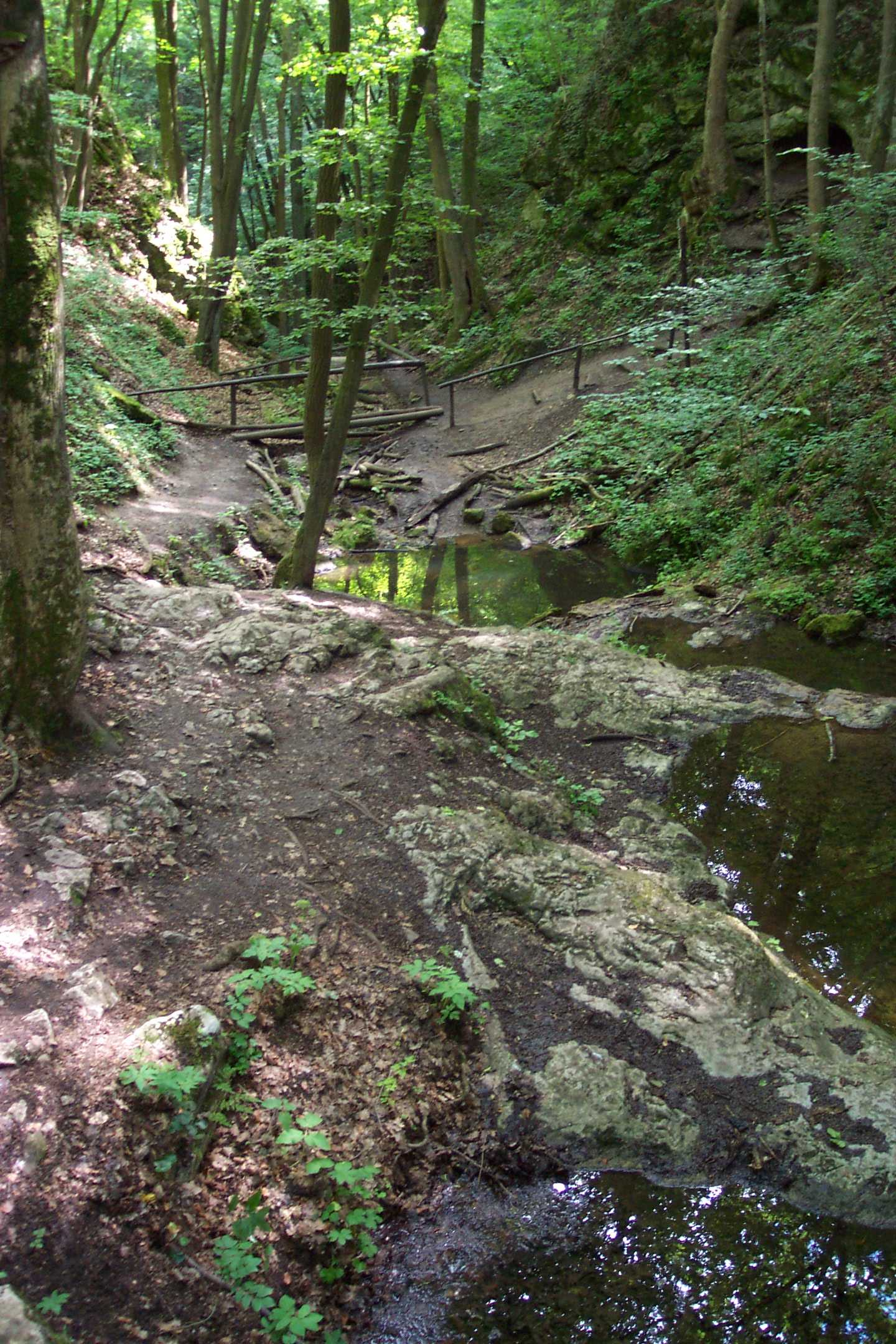 Valley of Bubovický potok in Český kras area near Srbsko, near Karlštejn. Central Bohemian region, CZ